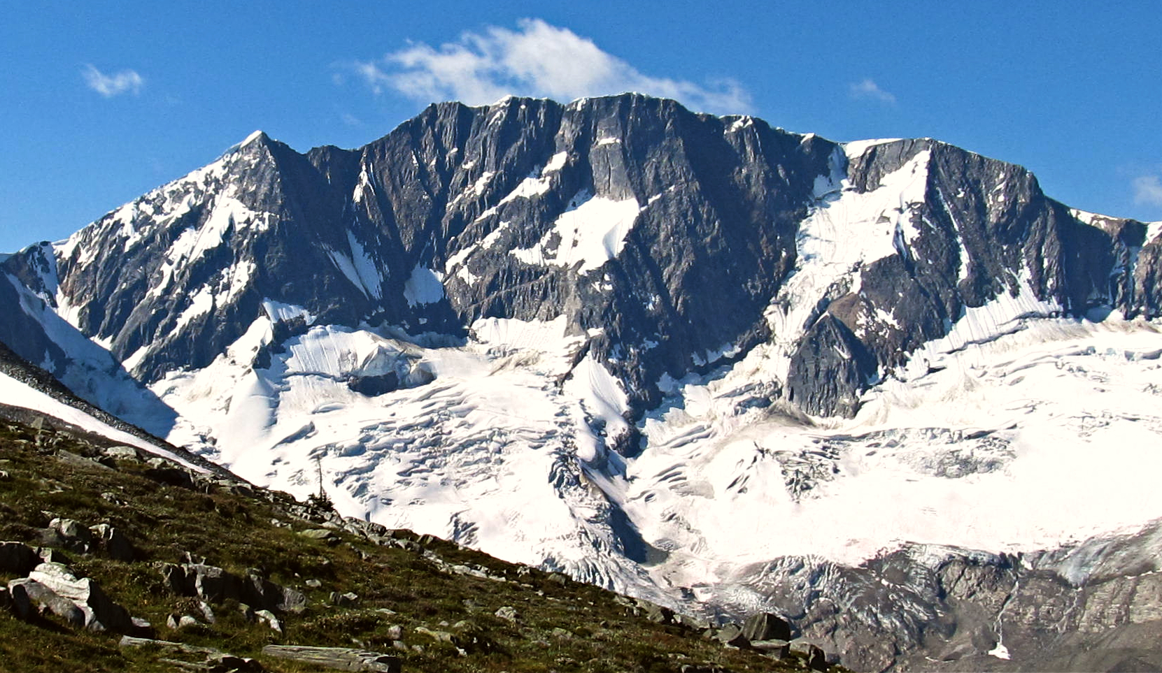 Mt Bonney from Abbott Ridge